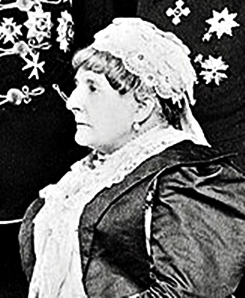 Princess Clotilde of Saxe-Coburg and Gotha, Archduchess of Austria, 1912.